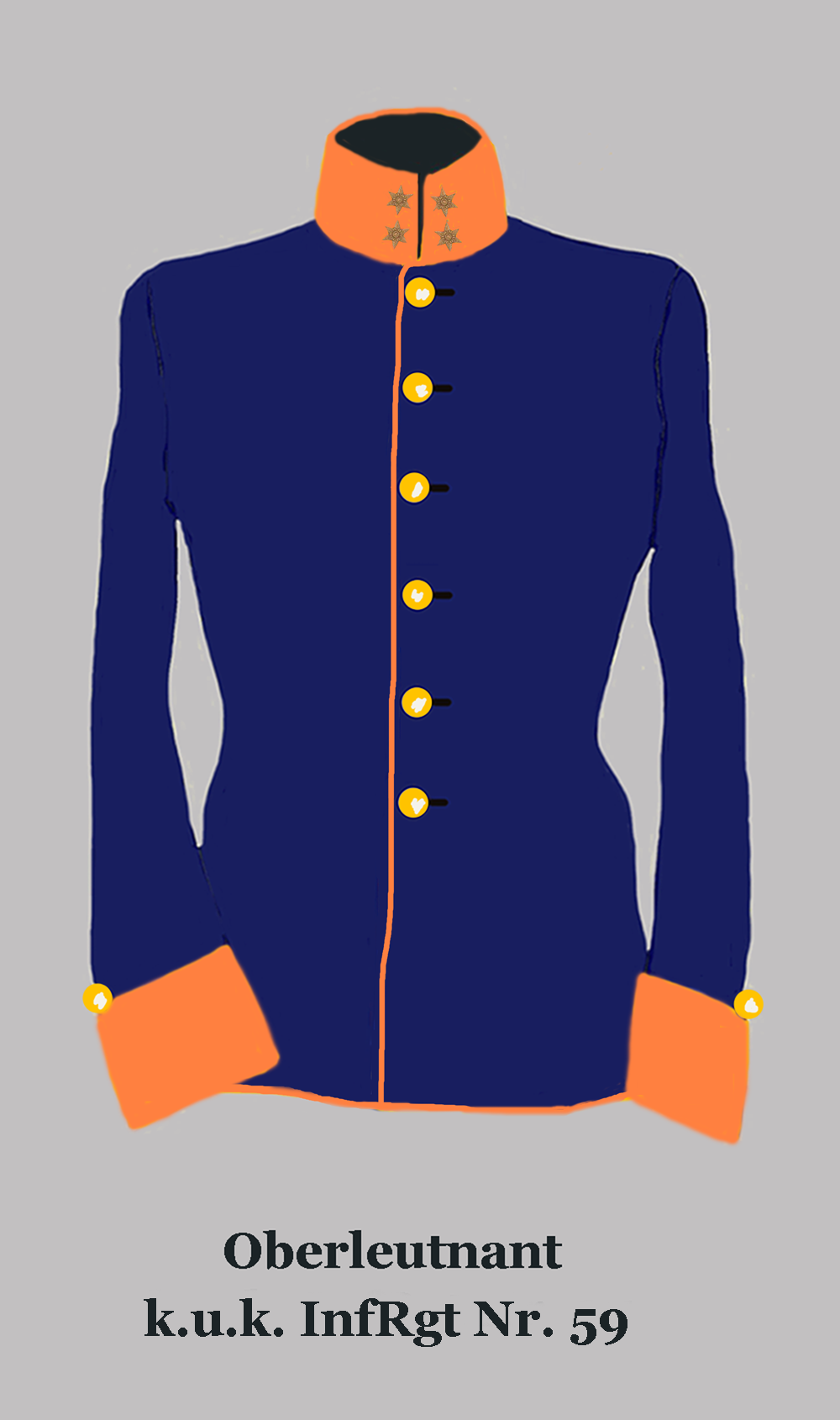 1st Lieutenant of the Austria-Hungarian infantry (German style tunic with orange regimental identification color and yellow buttons)